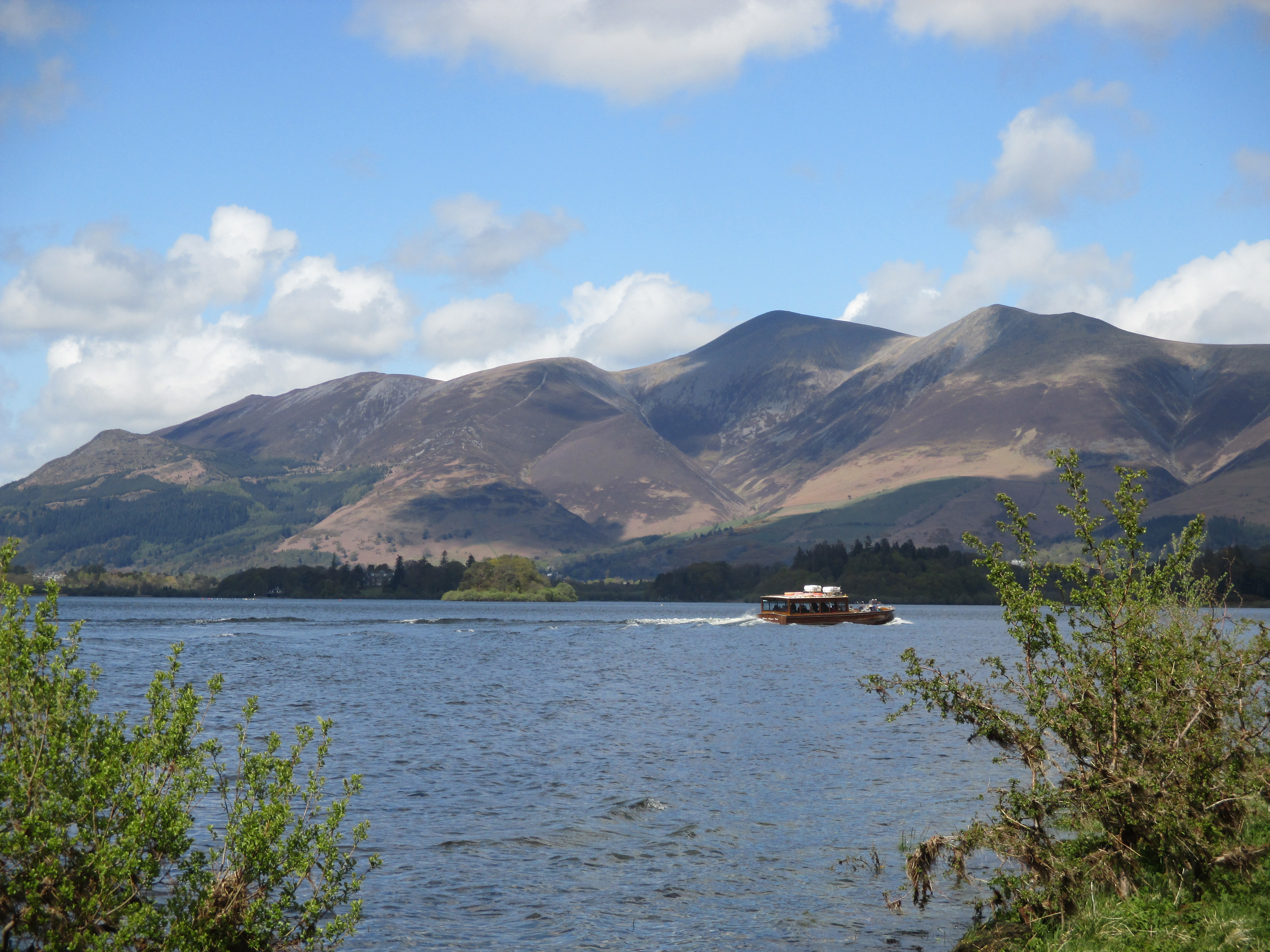 Skiddaw photographed from Ashness. In the middle distance is one of the Keswick Launch Company's ferries.